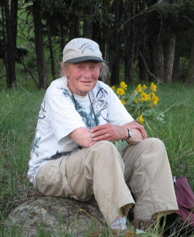 E.C. Pielou posing for picture